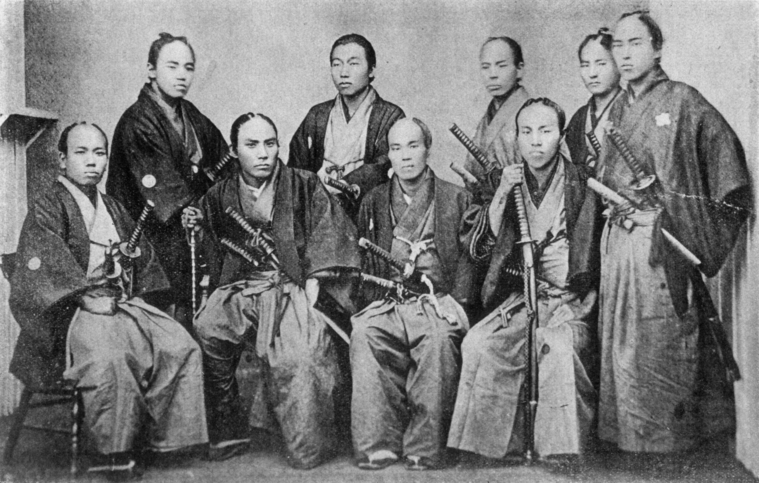 Count Ōkuma of the days studying in Nagasaki (taken in Keiō 2). Back row (from left): Nakajima Nagamoto, Sagara Chian, Tsutsumi, Nakano Takeaki. Front row (from left): Soejima Yōsaku, Soejima Taneomi, Koide Sennosuke, Ōkuma Shigenobu, Nakayama Nobuyoshi.